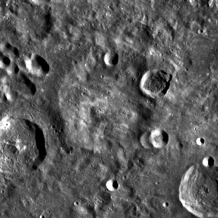 LROC . Gerasimovich was covered by Orientale basin ejecta blanket. Satellite S at left border of image, Ellerman at right bottom corner.